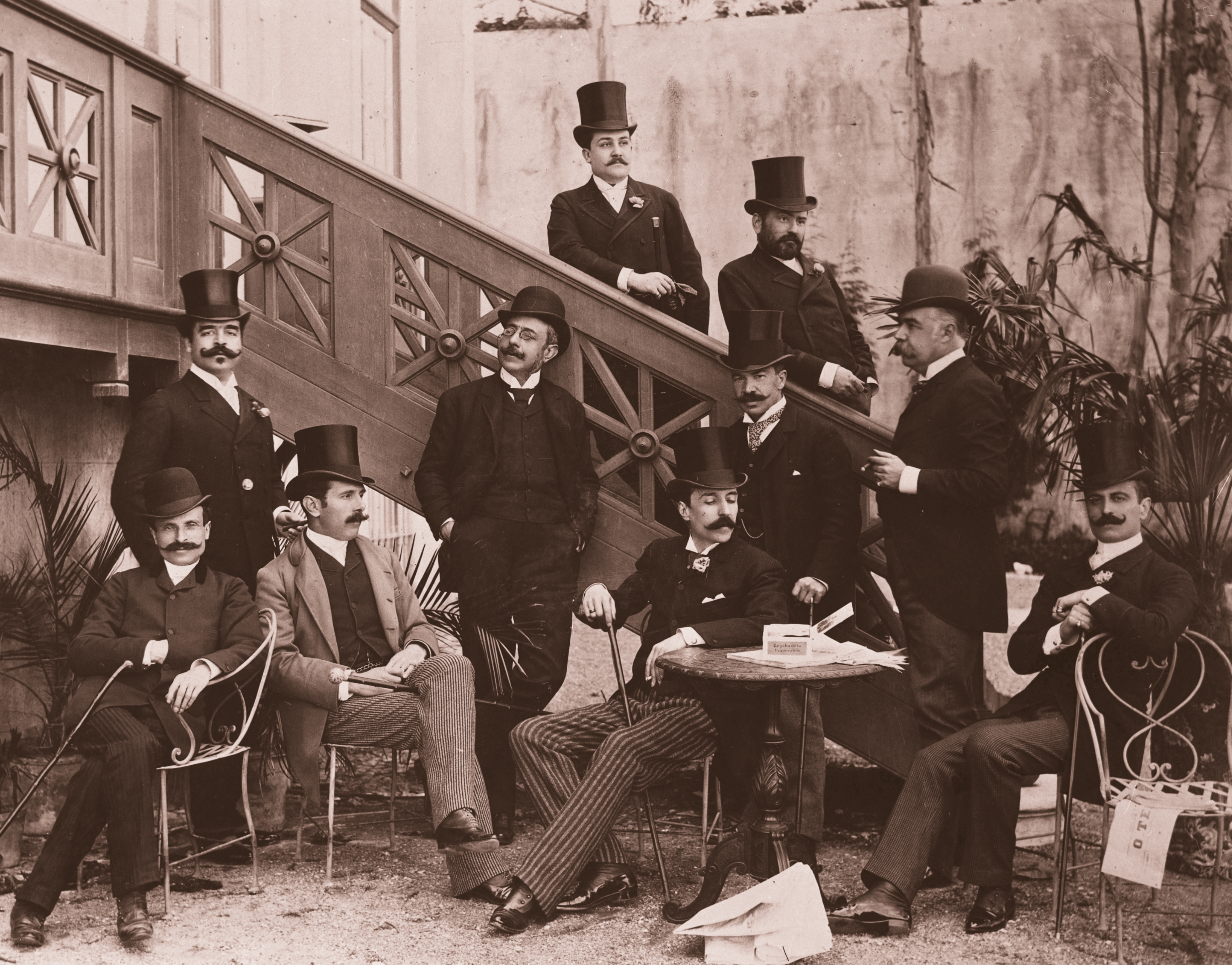 The Vencidos da Vida group (Life's Losers), in 1888. Left to right: sitting, Guerra Junqueiro, the Count of Sabugosa, Eça de Queirós, the Count of Arnoso; standing, the Marquis of Soveral, Ramalho Ortigão, Carlos Mayer, the Count of Ficalho; on the stairs, Carlos Lobo d'Ávila, and Oliveira Martins.